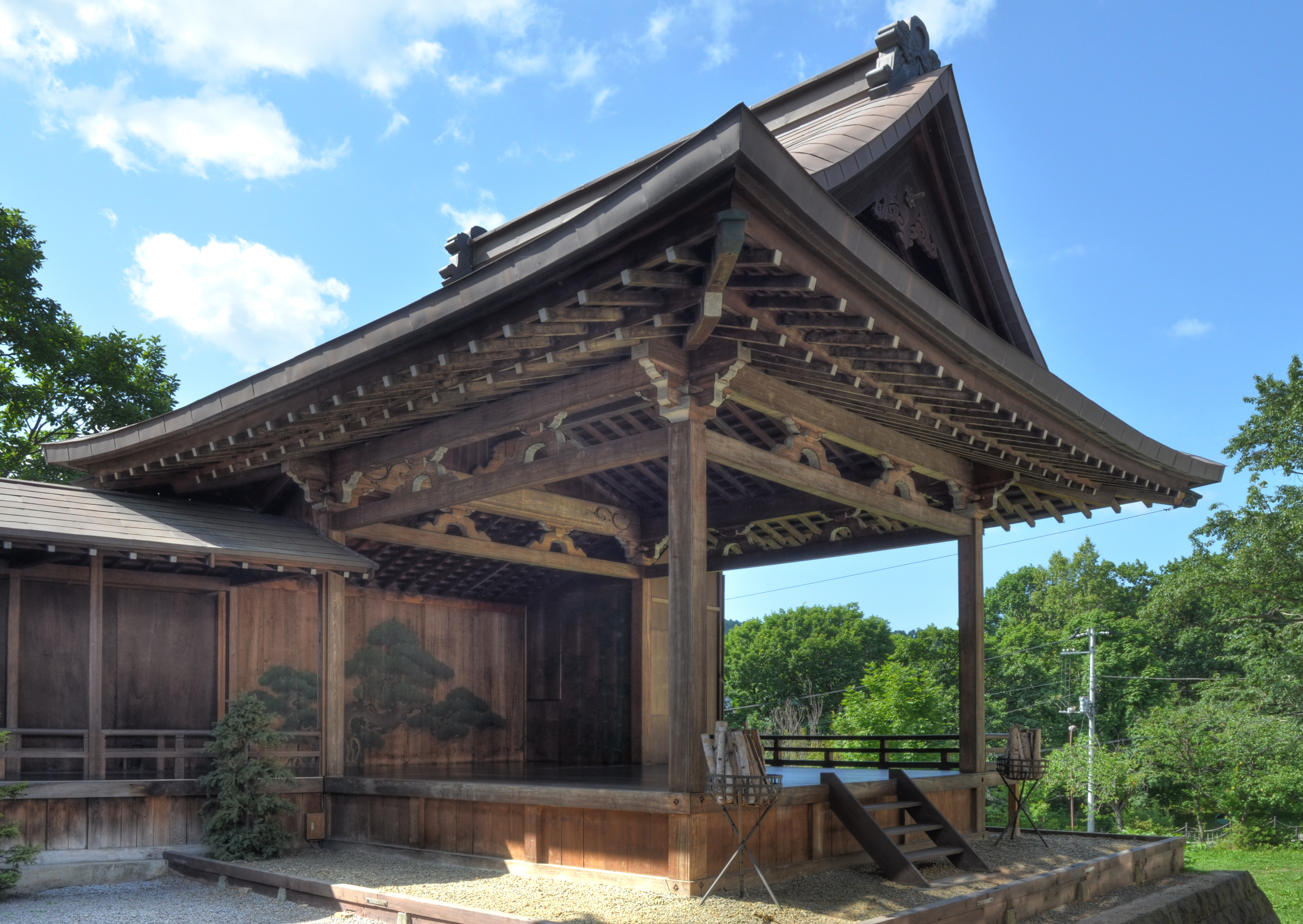 Otaru Noh Stage, Aug 2011